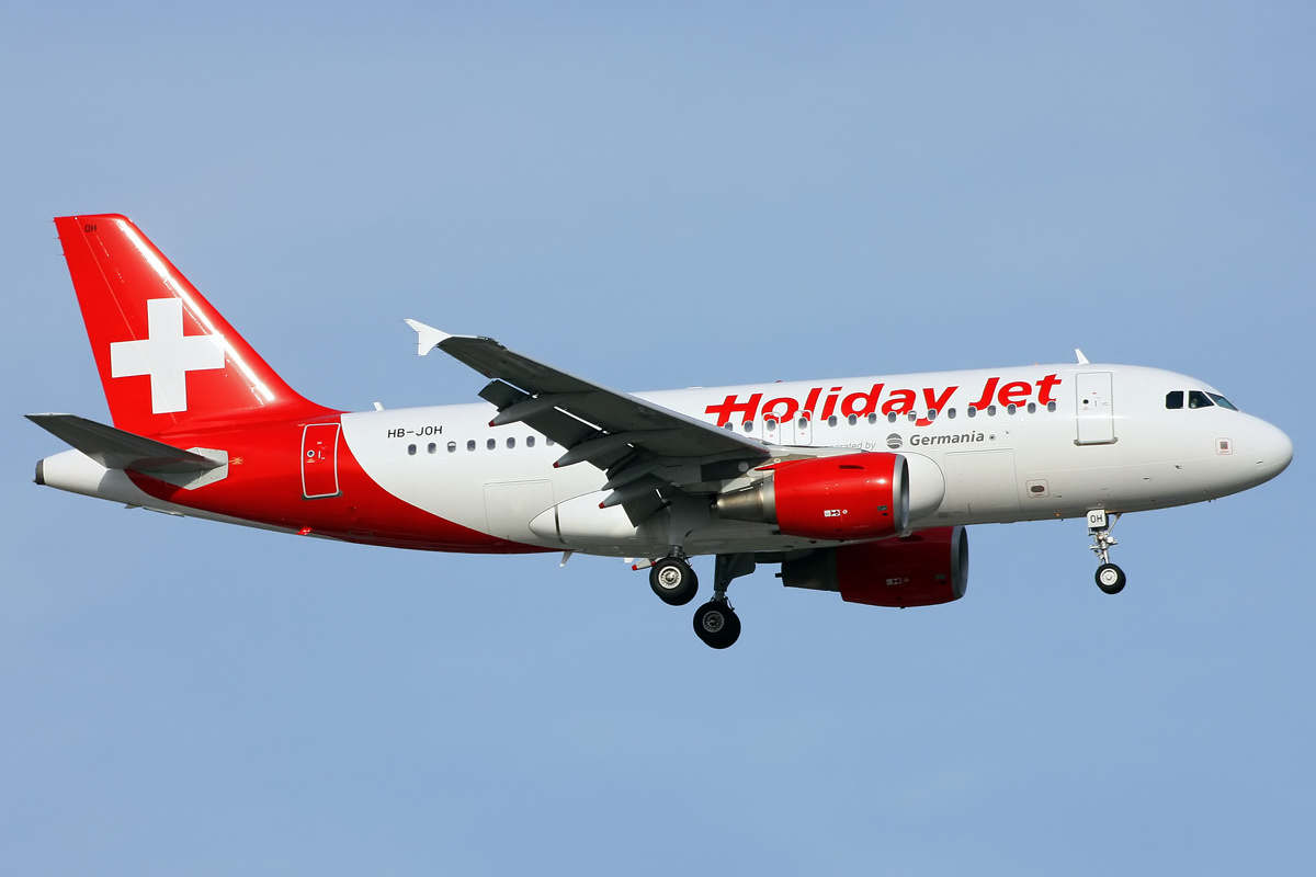 Holiday Jet Airbus A319-112 on final approach at Antalya Airport